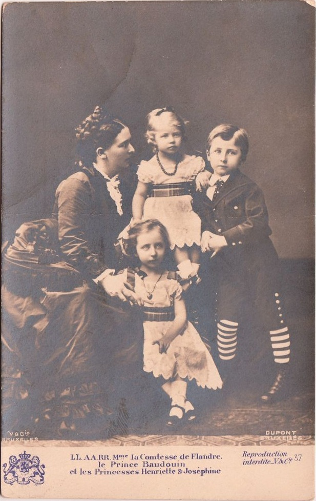 Maria, Countess of Flanders and her children: Marie, Countess of Flanders with her children: Baudouin, Henriette and Joséphine Caroline